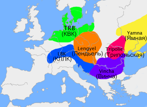 The same as but with russian labels